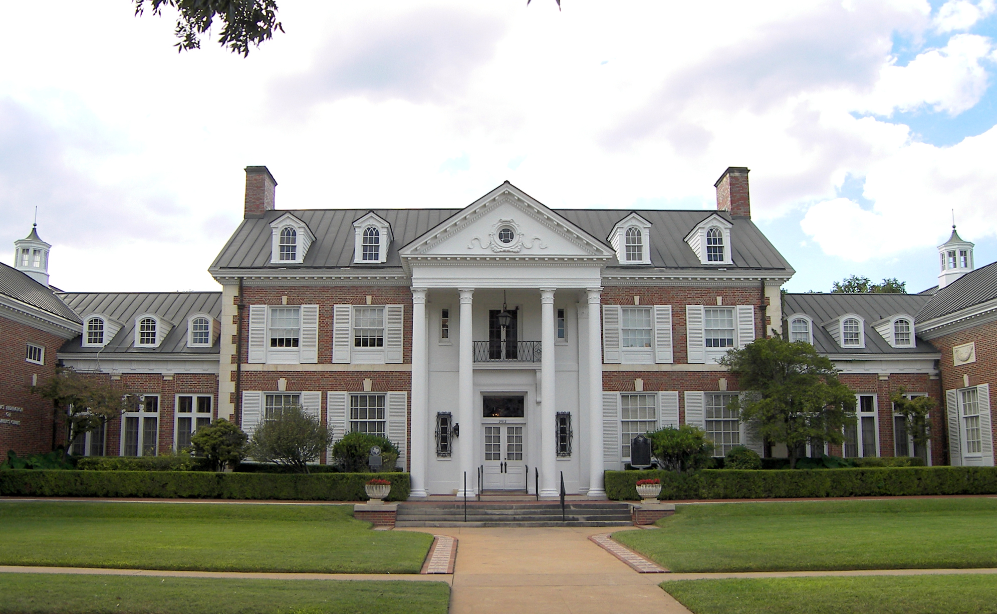 The Texas Federation of Women's Clubs Headquarters located near the University of Texas in Austin, Texas, United States. The Colonial Revival mansion was completed in 1933. It was listed on the National Register of Historic Places on October 24, 1985 and designated a Recorded Texas Historic Landmark in 1986.